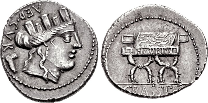 P. Furius Crassipes 84 BC. AR Denarius (19mm, 3.73 g, 10h). Rome mint. Turreted head of Cybele right; foot behind / Curule chair inscribed P. FOVRIVS. Crawford 356/1c; Sydenham 735b; Furia 19. Near EF, attractively toned, traces of deposits. From the Bruce R. Brace Collection, purchased from Spink, September 1991.